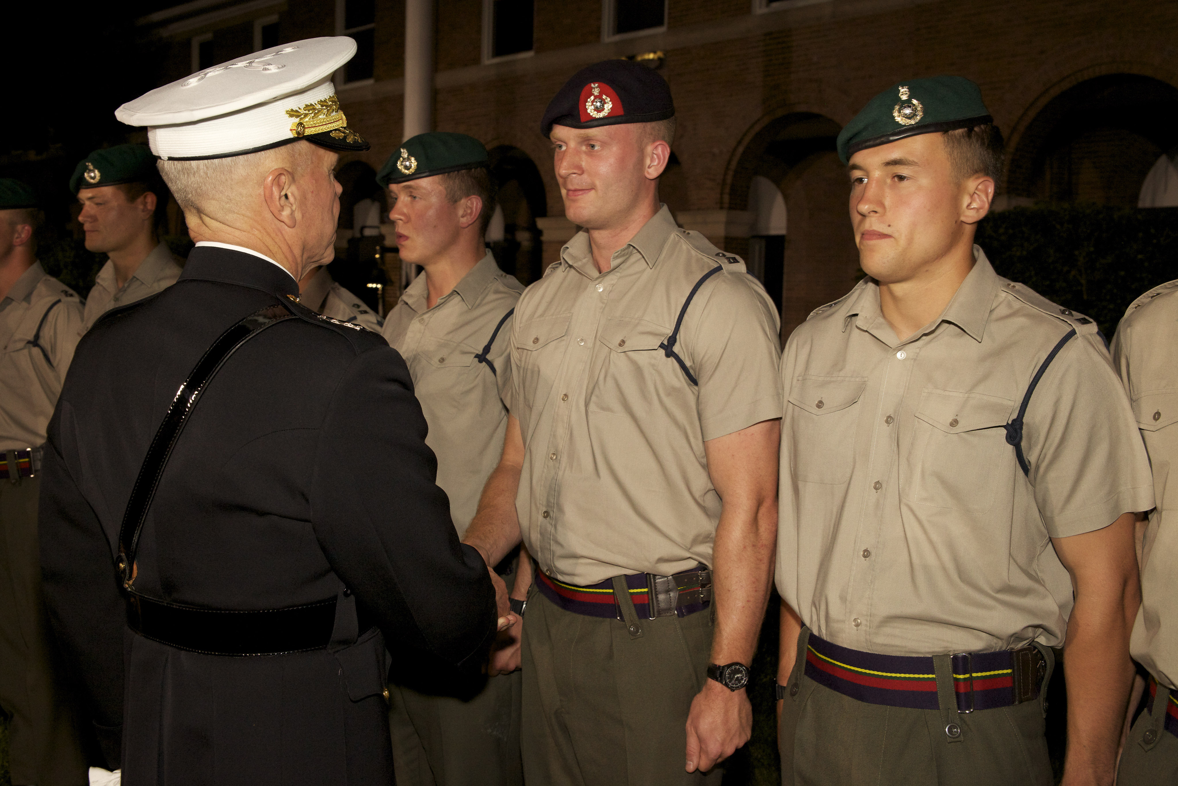 The Commandant of the Marine Corps, Gen. James F. Amos, left, greets British Royal Marines following the Evening Parade at Marine Barracks Washington in Washington, D.C., July 18, 2014. Evening Parades are held every Friday during the summer months. (U.S. Marine Corps photo by Sgt. Mallory Vanderschans/Released)